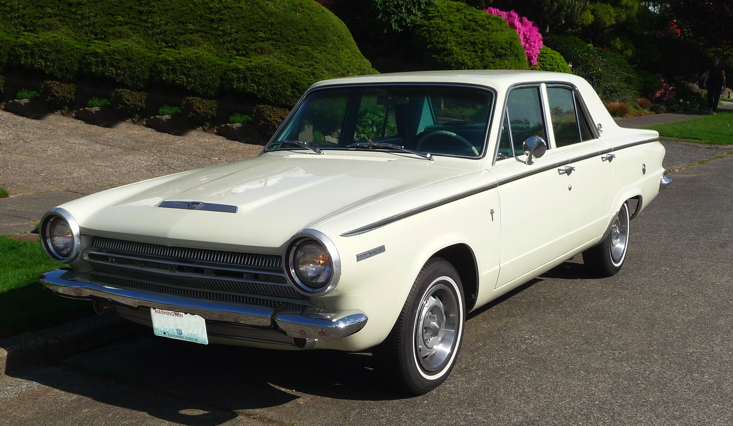 1964 Dodge Dart 270 4-door V8 sedan.